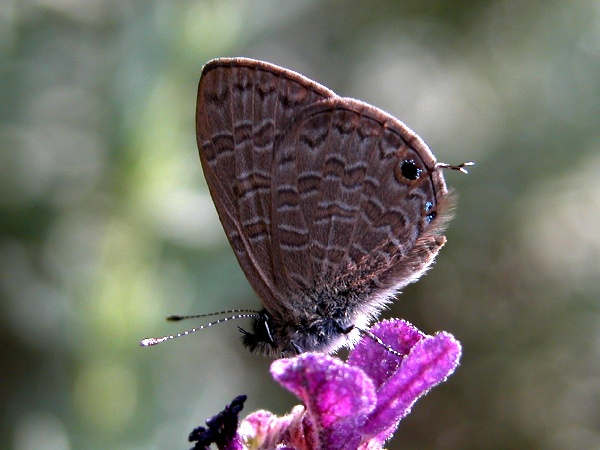 The Common Lineblue (Prosotas nora) in Bangalore